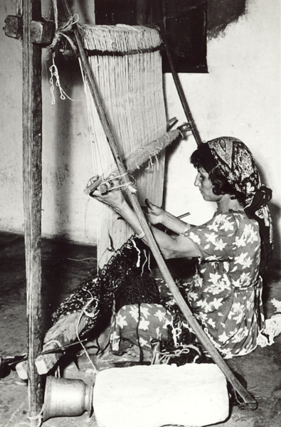 Weaving - Moshav Porat, Econimy of Israel